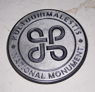 National monument sign in Estonia